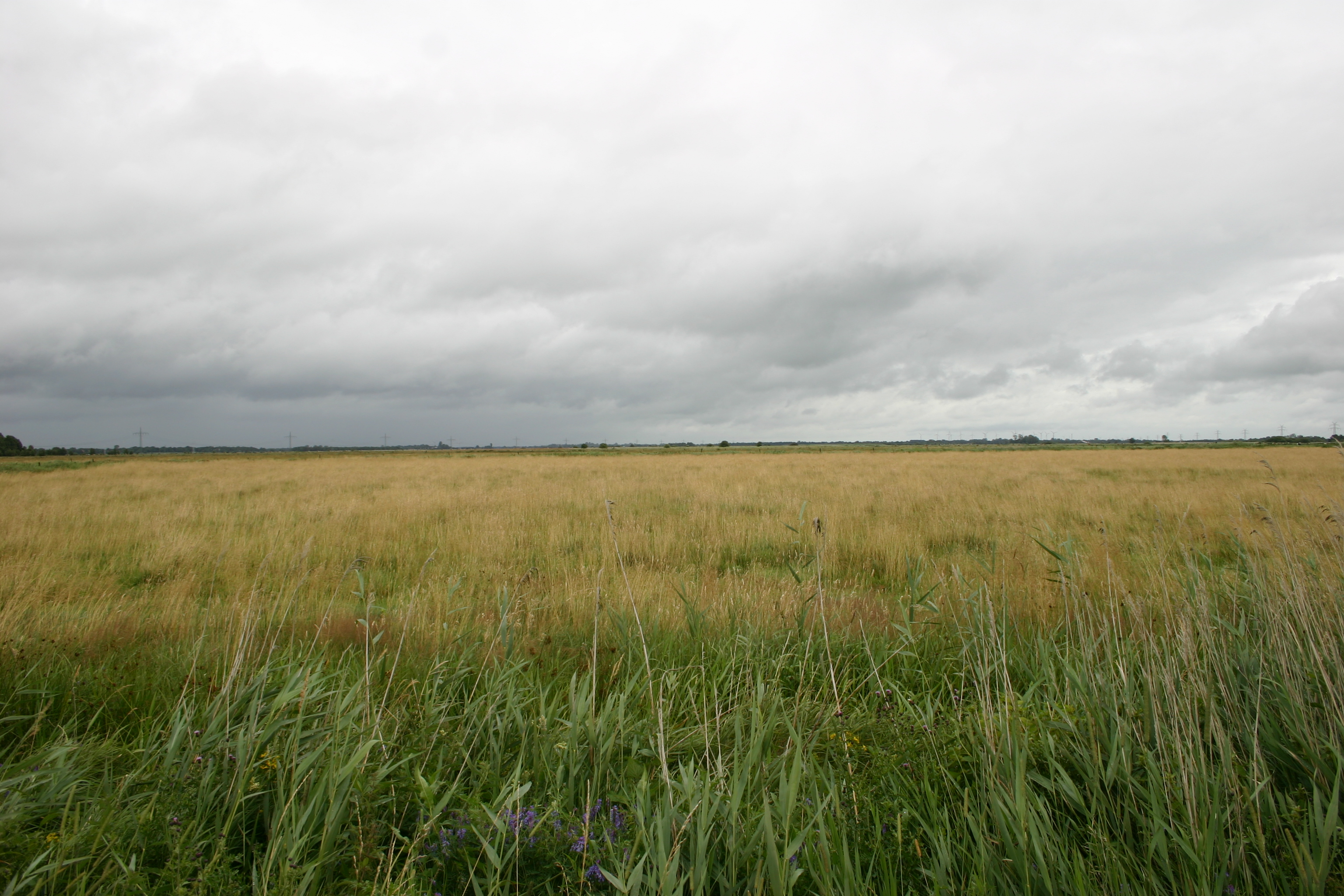 low-lying fen area in the middle of the communities of Moormerland, Grossefehn and Ihlow in the districts of Aurich and Leer, East Frisia, Germany